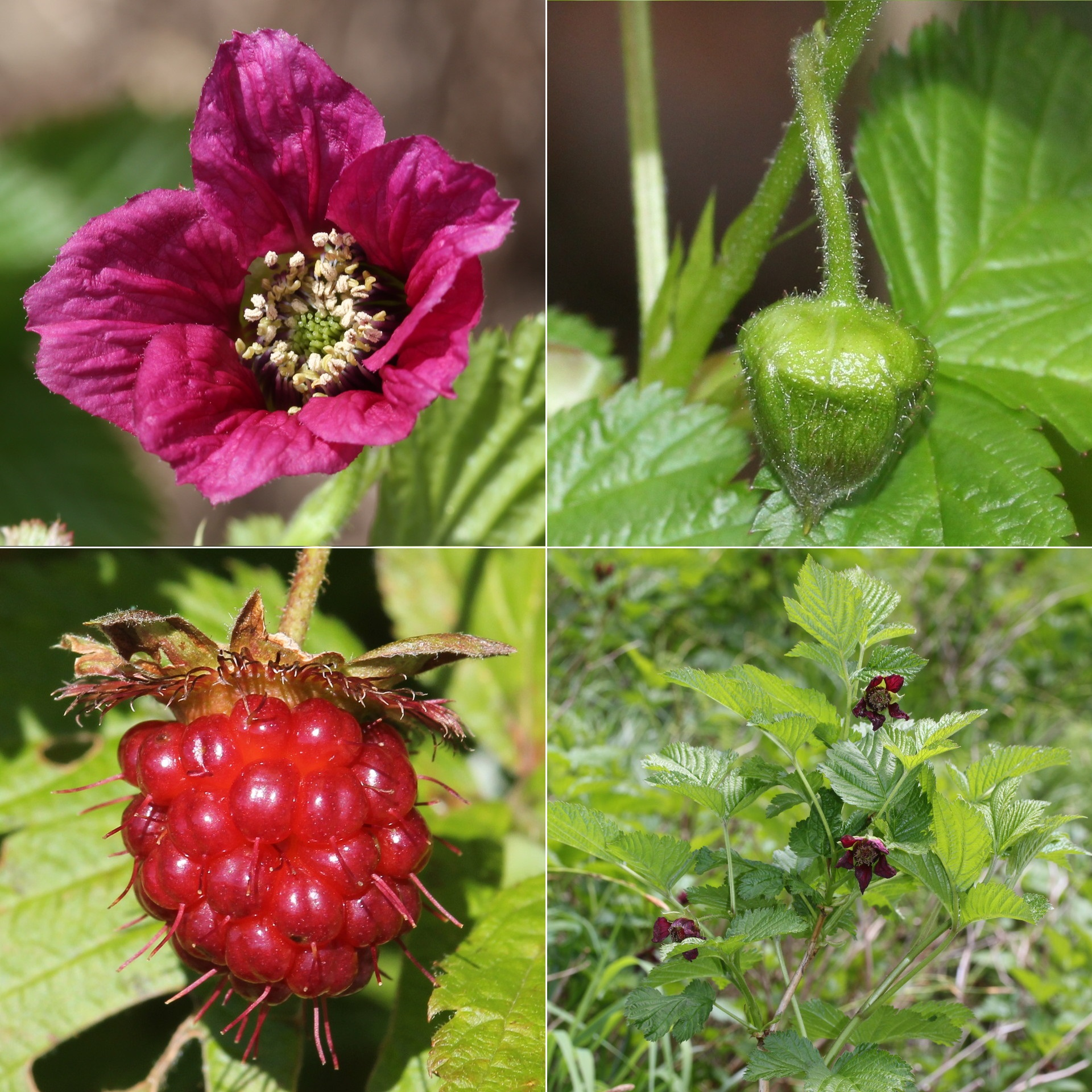 Montage of Rubus vernus